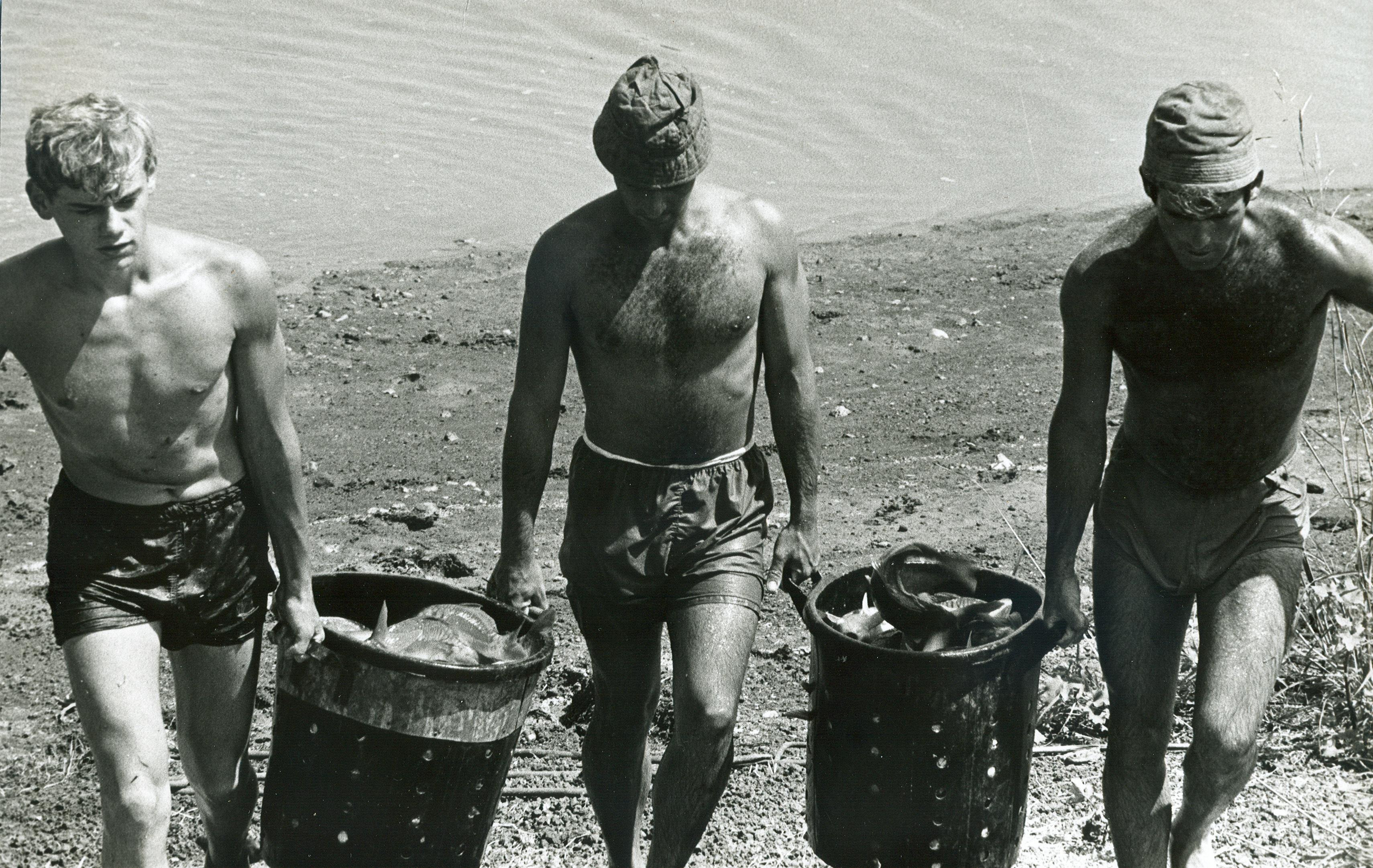 Animal Industries at Kibbutz Ramat Yohanan , Agriculture in Israel